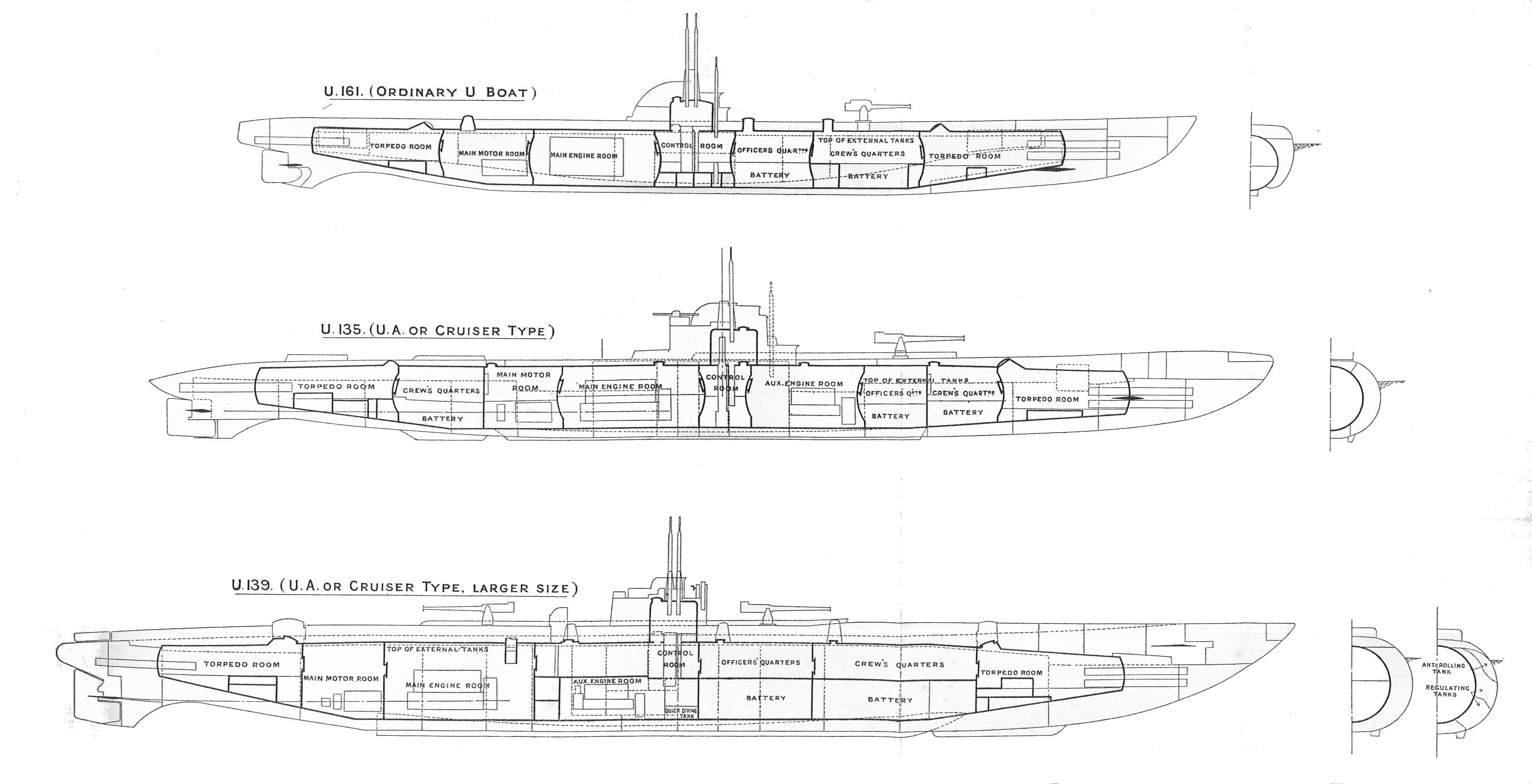 Fig. 4 Types of German Submarines U. 161Ordinary U Boaten:U boatU. 135U.A. or Cruiser TypeU. 139U.A. or Cruiser Type, Larger sizeType U 139